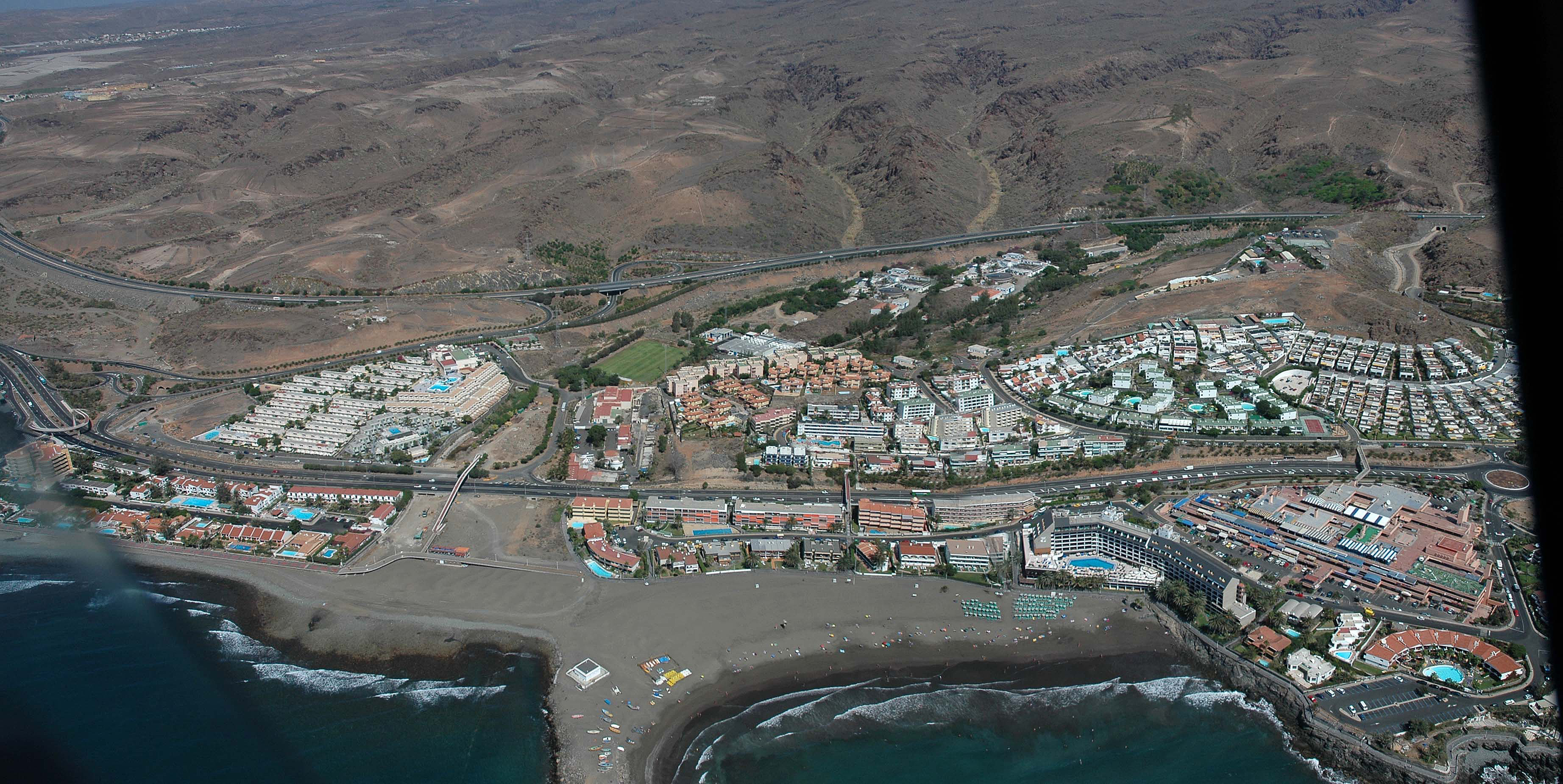 Aerial photo of San Agustín.